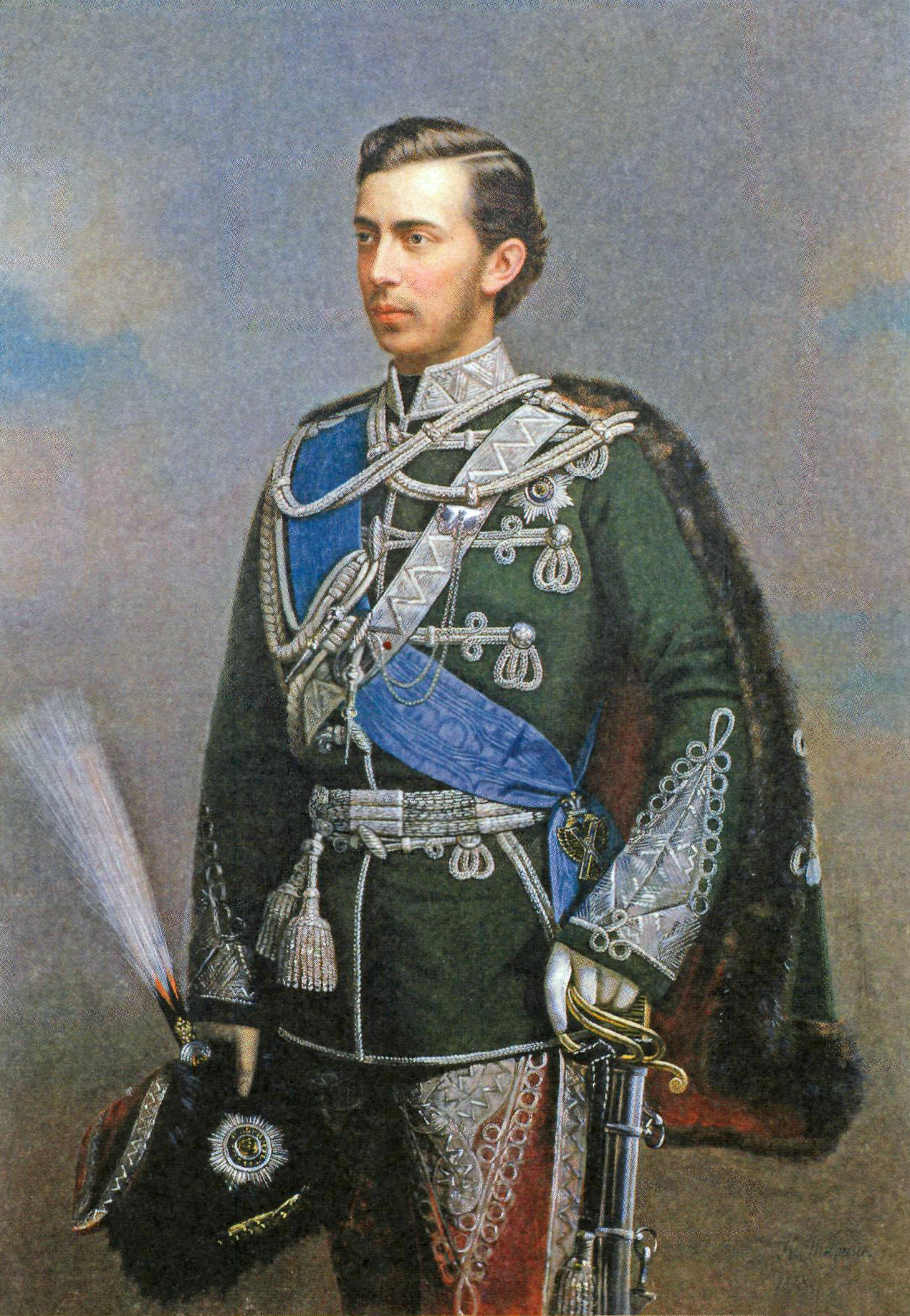 Portrait of Nicholas Alexandrovich, Tsesarevich of Russia (1843-1865)